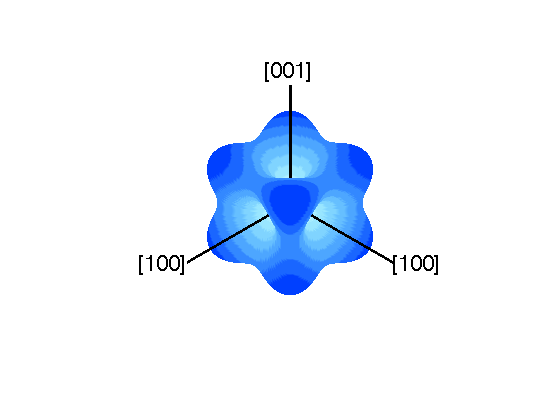 Plots the dependence of energy on direction of magnetization for cubic magnetic anisotropy